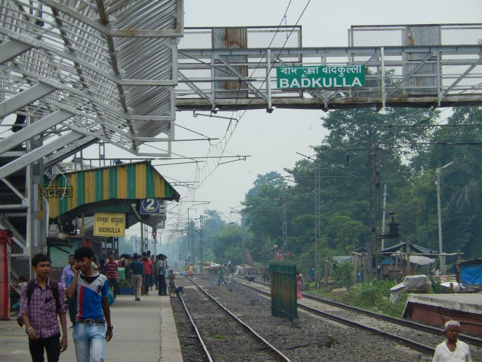 badkulla